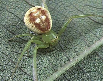 female Diaea subdola from Okinawa.